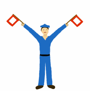 Letter U of the nautical semaphore flag signalling system Source: Martin Hawlisch (User:LosHawlos) My own drawing done in gimp First uploaded to de: in jun-2004